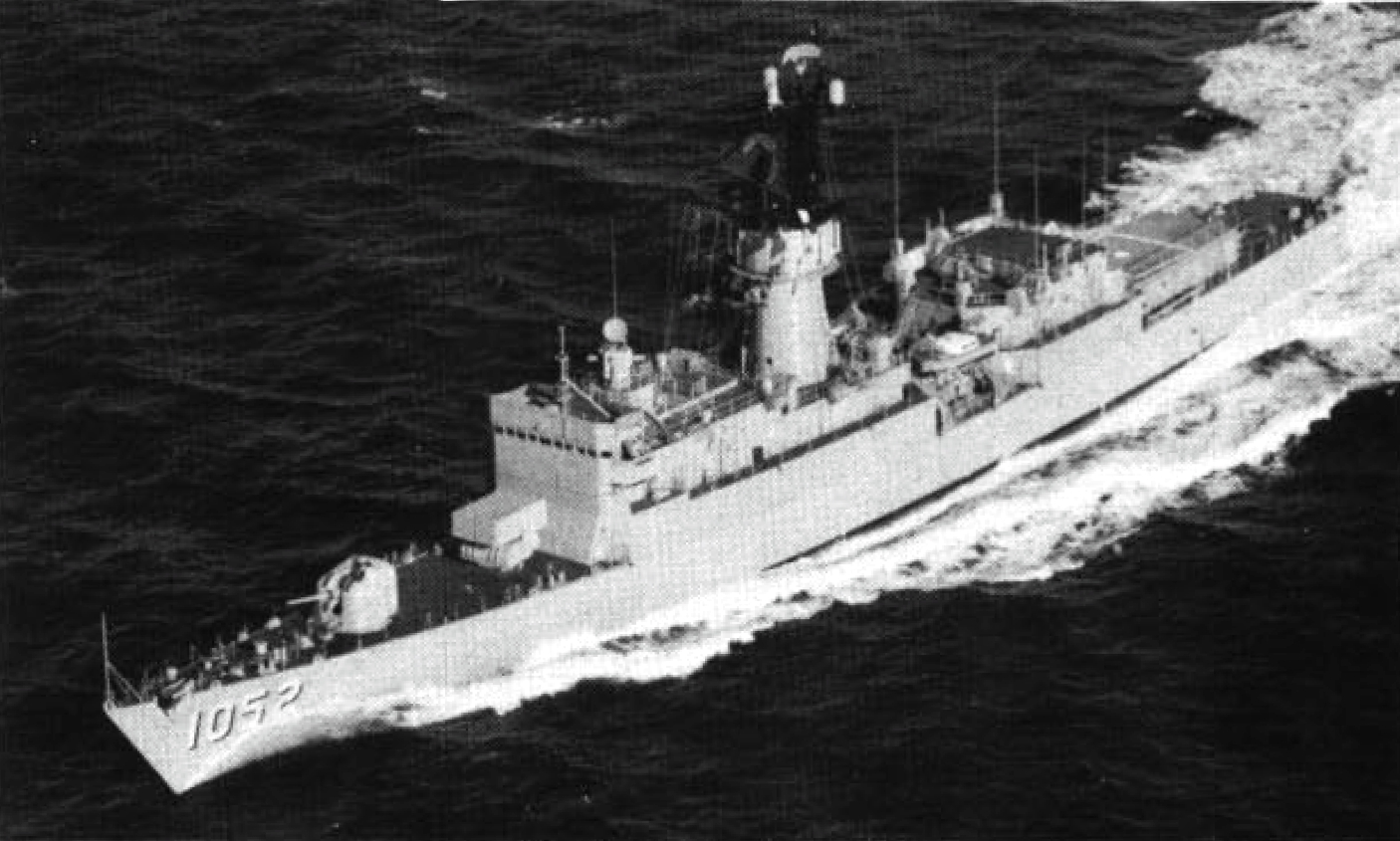 The U.S. Navy destroyer escort USS Knox (DE-1052) underway. Knox was commissioned on 12 April 1969.